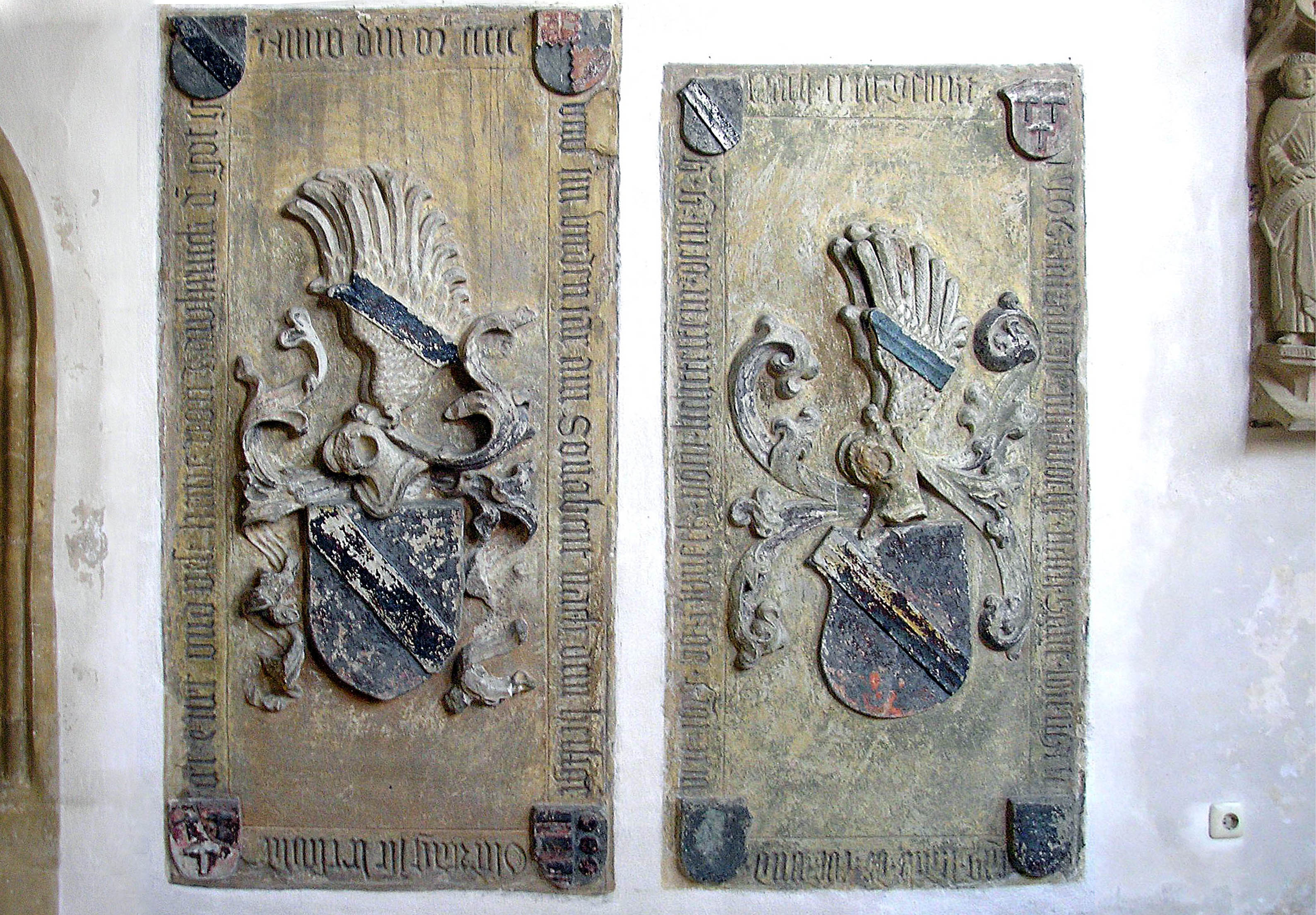 Parish church St. Kilian (Pfarrweisach, Landkreis Haßberge, Lower Franconia, Germany). Tombstones (Marschalk von Rauheneck, 16th century)